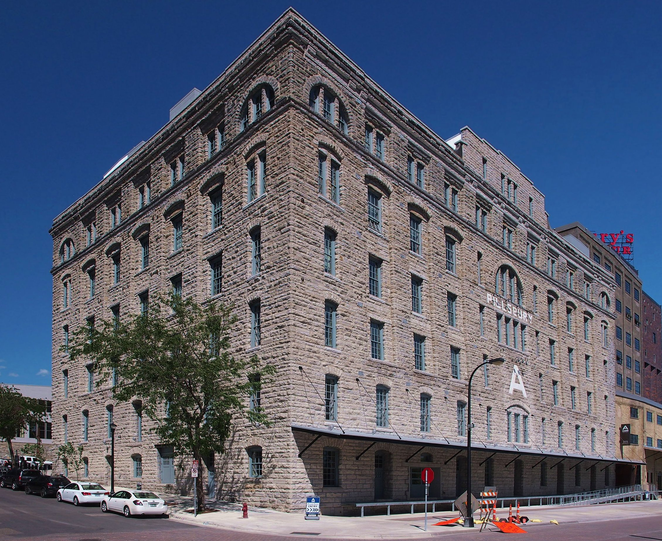 Original 1881 section of the Pillsbury "A" Mill, 301 Main St SE, Minneapolis, Minnesota, USA. Viewed from the southwest.